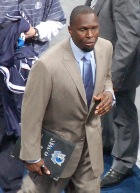 Dallas Mavericks assistant coaches leave an exhibition game in Barcelona, Spain. Back to front: Casey Smith, Darrell Armstrong, and Robert Hackett